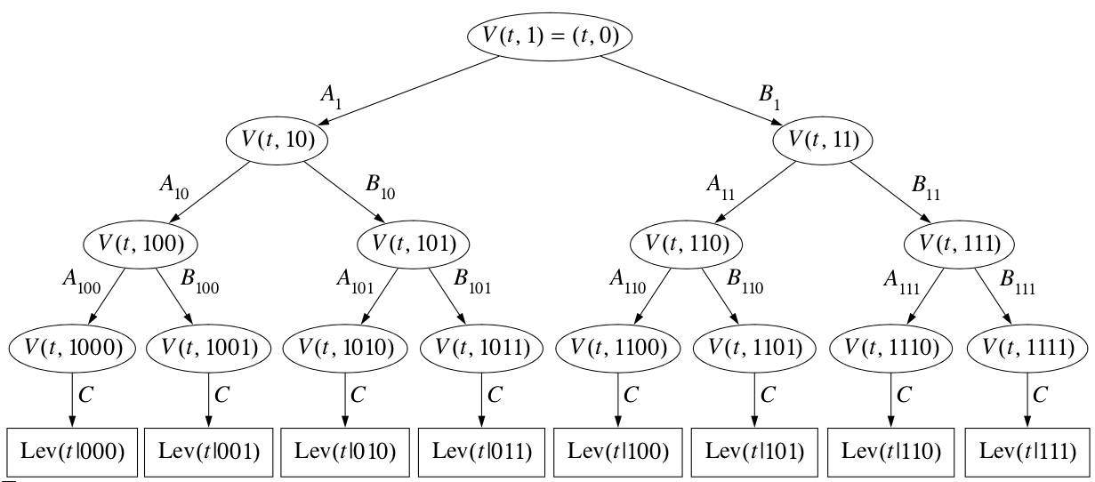 This is a diagram I created for the paper Bias in the LEVIATHAN stream cipher.